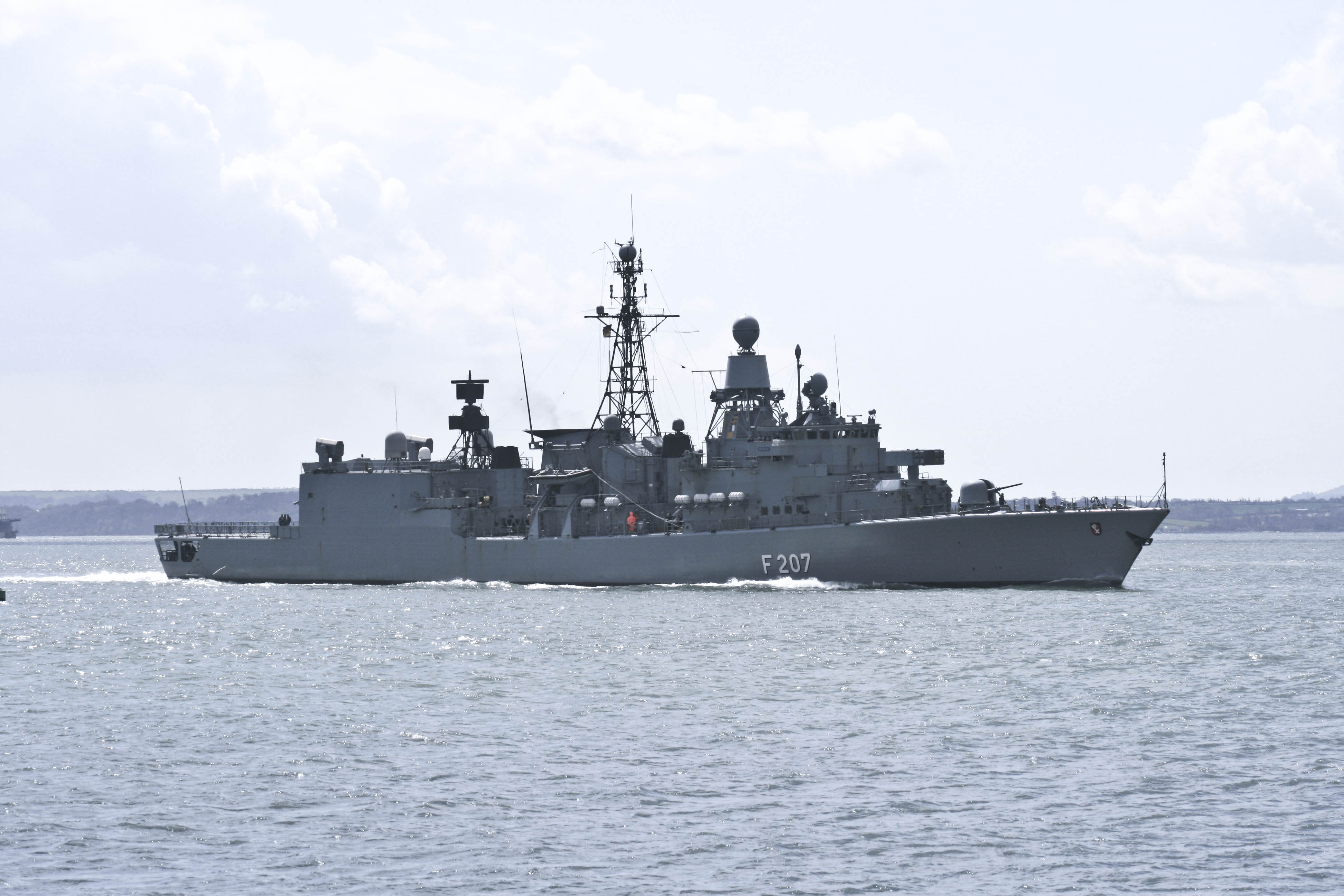 German Navy Bremen class general-purpose frigate Bremen (F207) photographed on 26 April 2013 by Brian Burnell inward bound to Portsmouth Naval Base, UK. Image uploaded by me User:George.Hutchinson from a photograph taken by and supplied by Brian Burnell. Wikipedia editors are reminded that the copyright remains with the photographer, and that the terms of the Creative Commons licence; that allow editors to reuse this image apply to Wikipedia editors also, as they do to other re-users of this image. Breaches of the licence terms are not only unlawful, but are also antisocial, in that breaches discourage photographers from making their images freely available to everyone without payment. Wikipedia re-users are also reminded of the license terms that derivatives of this image should not imply that the adaptation is endorsed or approved by the author or copyright holder. Neither should derivatives be presented as the creation of the author or copyright holder, while clearly stating that the adaptation is a derivative of the original. Attribution online should be in this format Brian Burnell. On the printed page, a simpler form is acceptable - example: "Image: Brian Burnell". Non-Wikipedia users are requested to advise Brian Burnell of its use other than on Wikipedia.